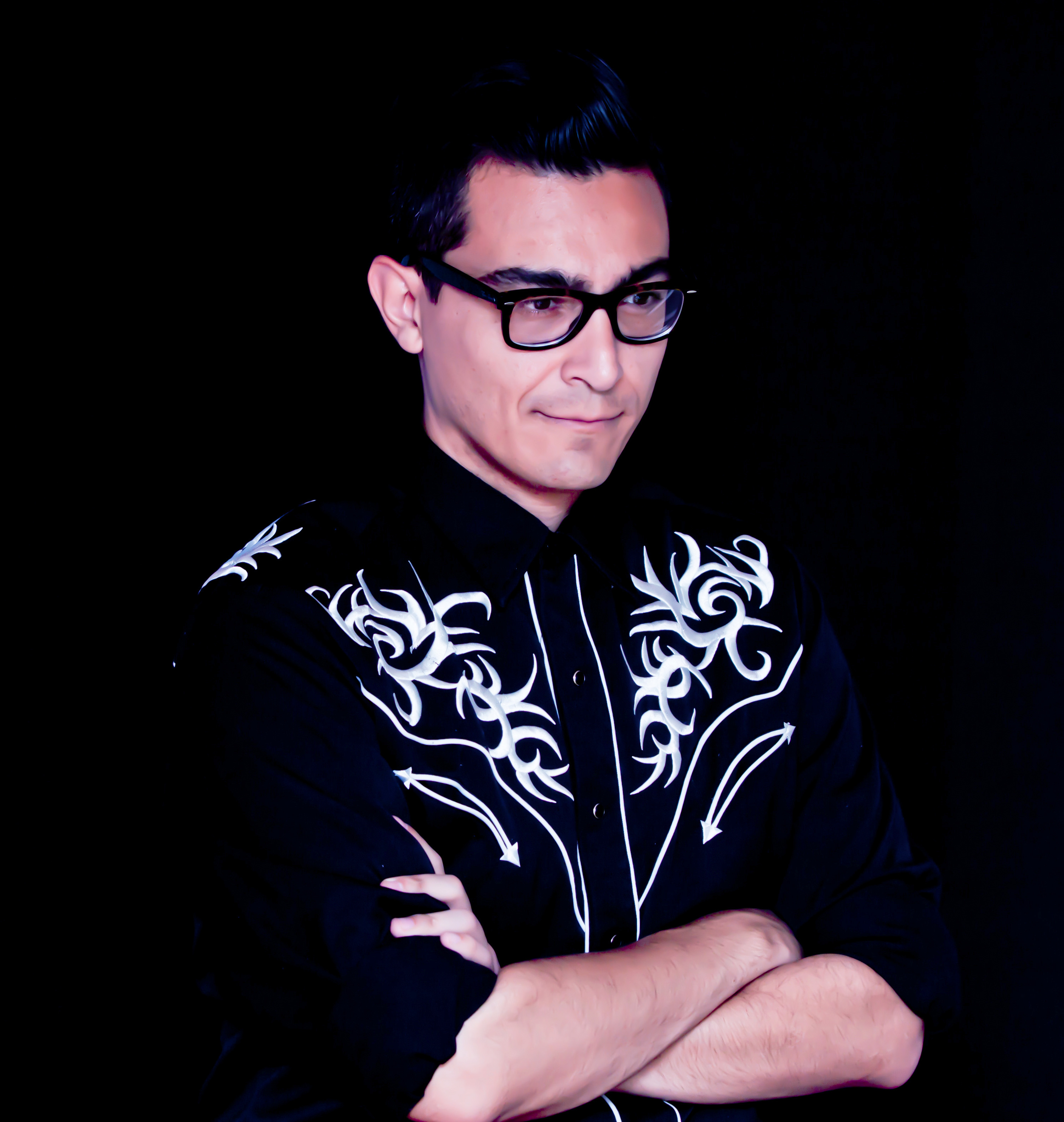 Tryno Maldonado. Mexican writer. Zacatecas, Mexico, 2014.